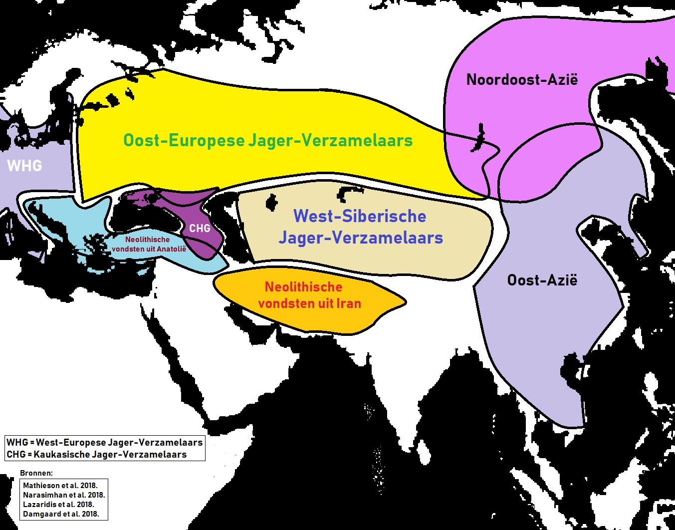 Shematic map of Eneolithic expansions. Source: Image:BlankEurasia.png